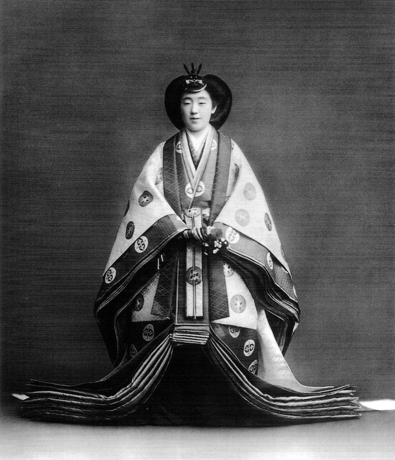 Empress Kōjun (Nagako) at the enthronement ceremony 1928